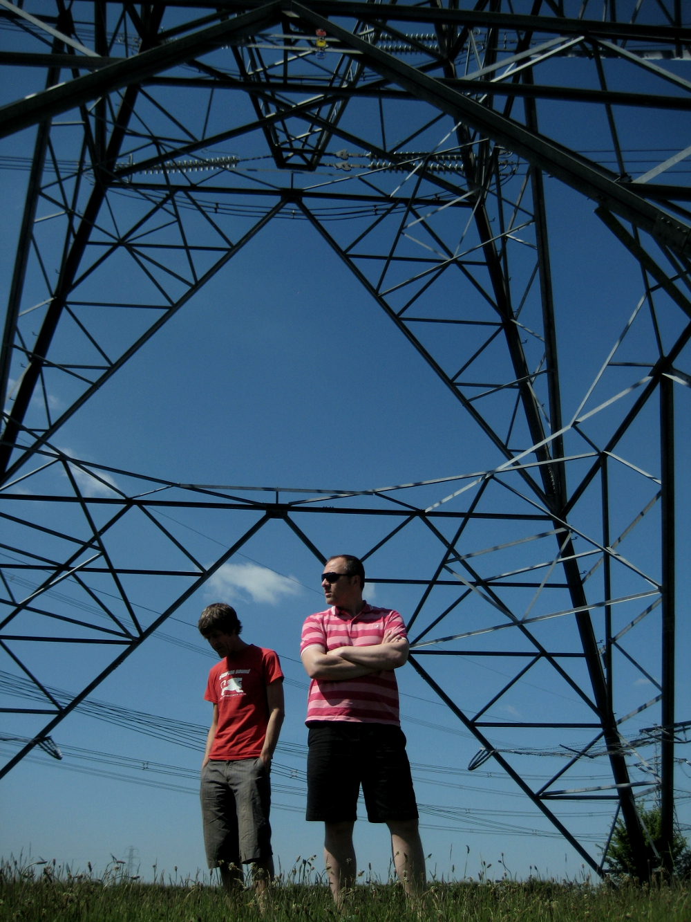 The Cutler under a pylon at Creyke Beck electricity substation, Skidby, East Riding of Yorkshire, England.